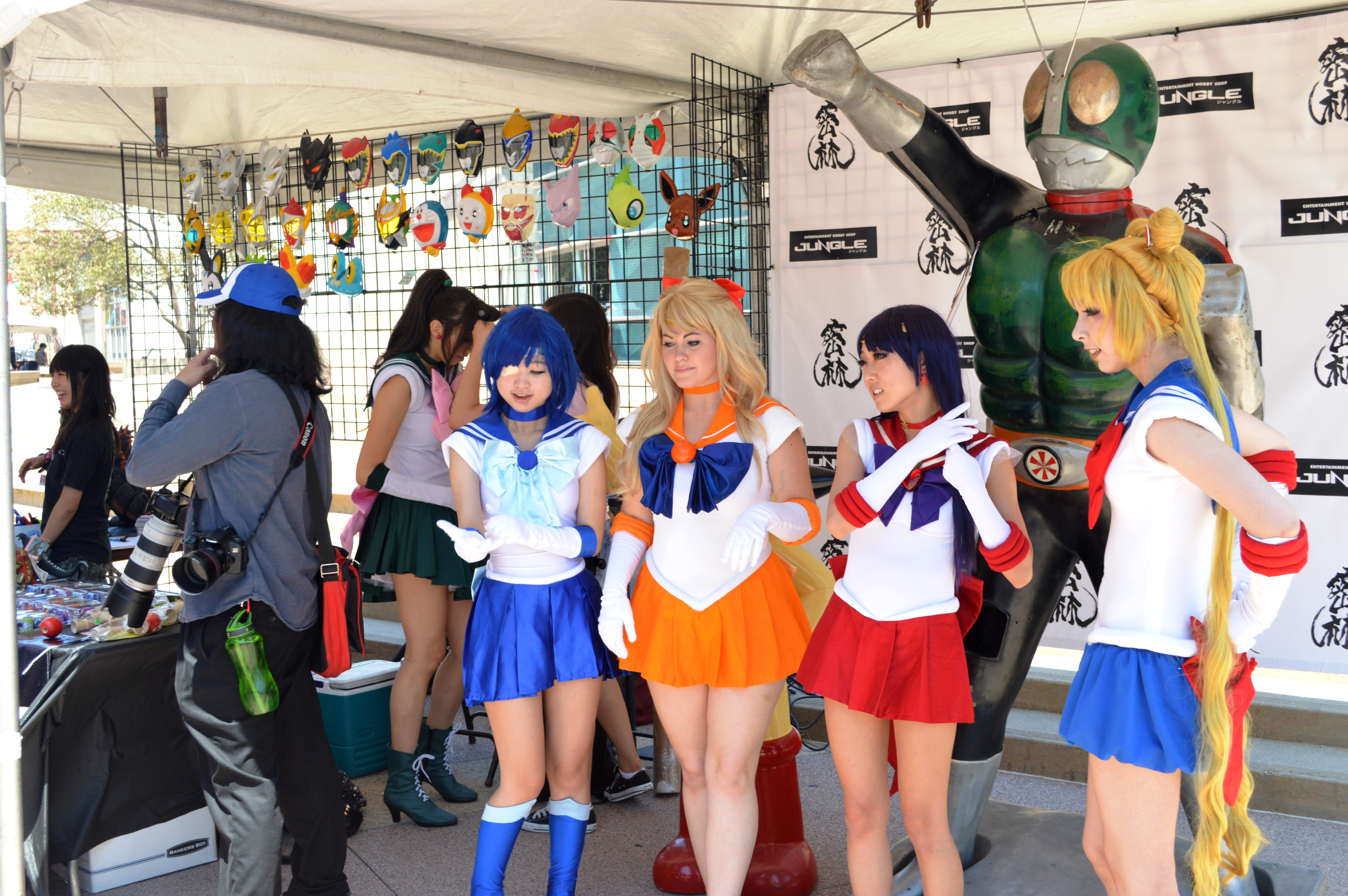 Sailor Moon cosplayers at the Anime Jungle booth in the Tanabata Festival area next to the Japanese American National Museum at the 2014 Nisei Week Festival - Little Tokyo, Los Angeles.